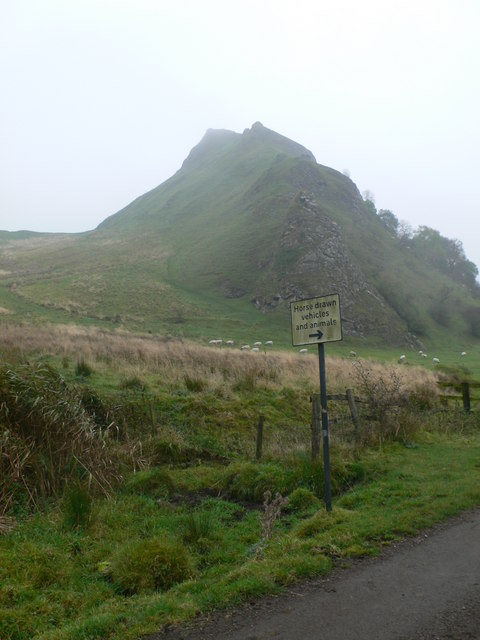 Parkhouse Hill From the lane leading to Dowall Hall.